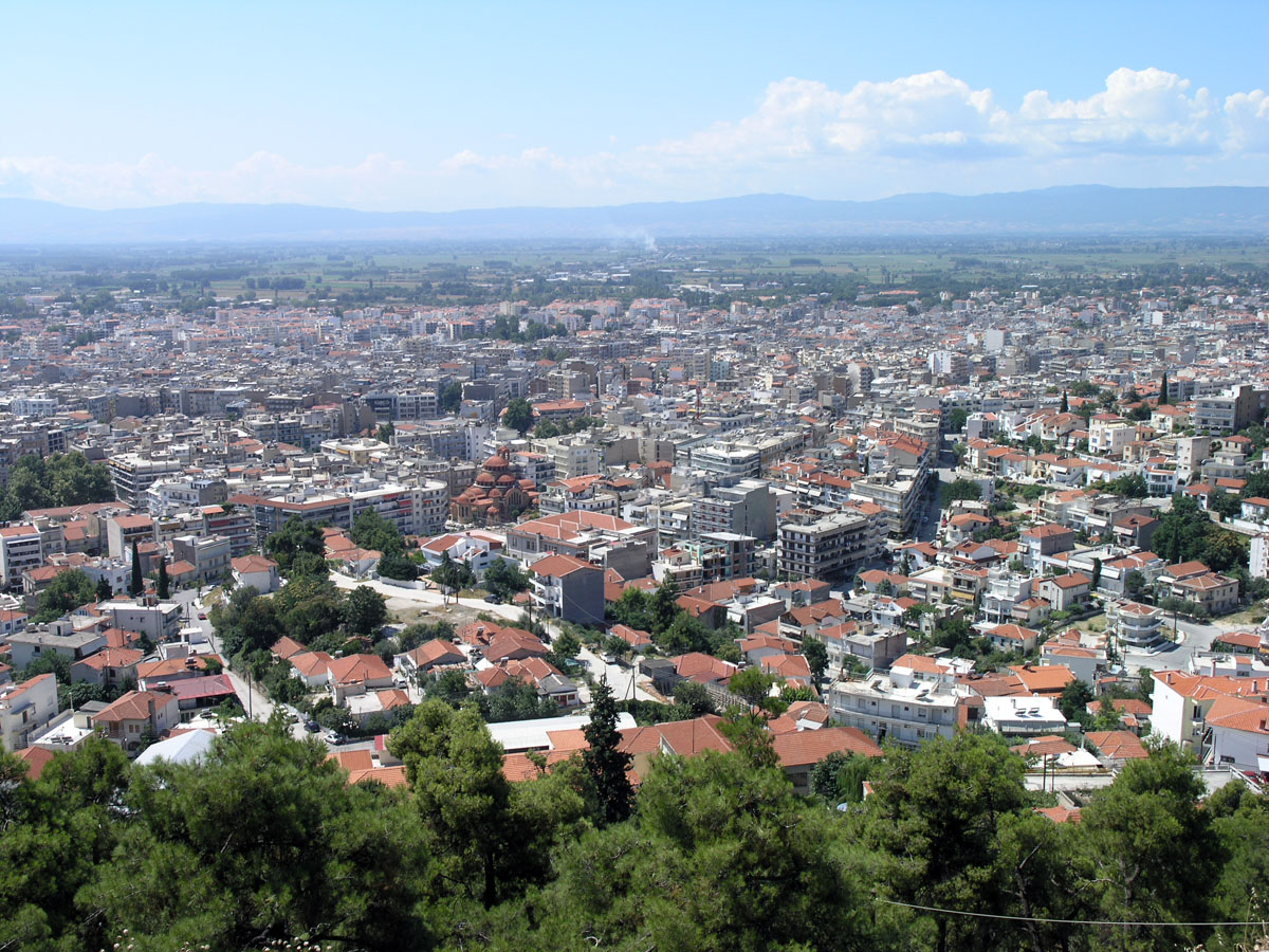 Serres overview from the acropolis. Photography taken by Marsyas on 07/31/2004.